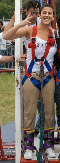 Bungee jumping of French singer Diam's